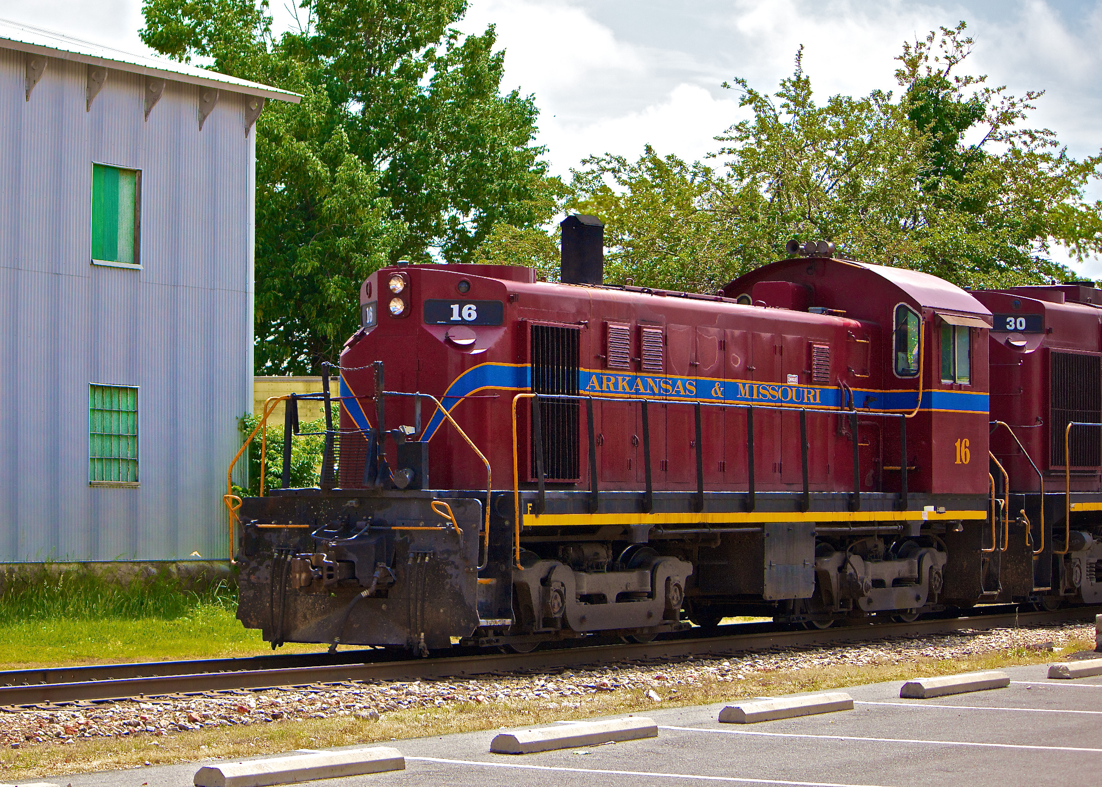 The Arkansas & Missouri Railroad's Alco T-6 #16 leads the daily local past Frisco Park in Rogers, AR.